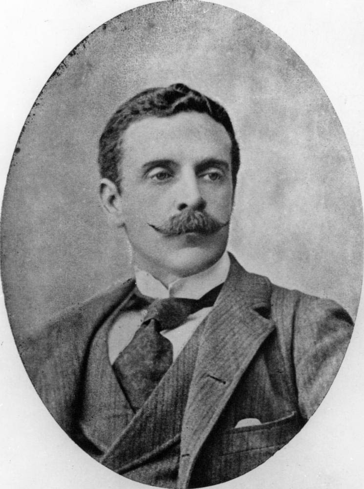 Charles Cochrane-Baillie, 2nd Baron Lamington, Governor of Queensland (1896-1901). Charles Wallace Alexander Napier Cochrane-Baillie was born on 29 July 1860 in London. He was the only son of Alexander Cochrane-Baillie, 1st Baron Lamington. He was educated at Eaton and Christ Church, Oxford. In 1885 he became assistant private secretary to Lord Salisbury and in 1886 he entered parliament as the conservative member for North St. Pancras. He stepped down in 1890 when he succeeded to the title of Baron Lamington. An enthusiastic hunter and traveller, Lord Lamington made a notable journey from Siam (Thailand) to Tongking (North Vietnam) in 1890-91. In 1895 he was appointed Governor of Queensland, a post he held until 1901 when he returned to his Lanarkshire estate. He married Mary Hozier in 1895 and had one son and one daughter. (Description supplied with photograph)